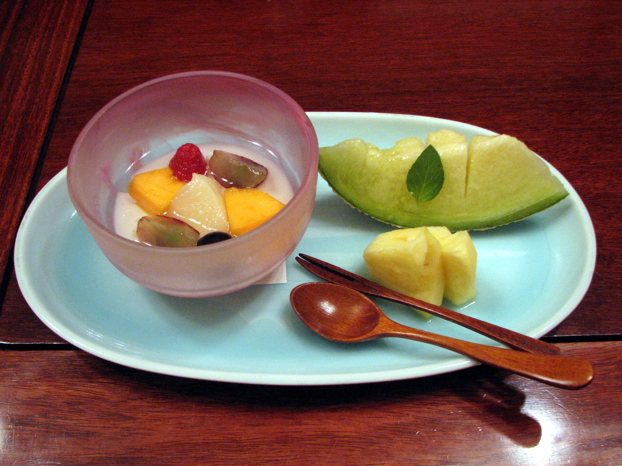 Kaiseki ryori at the Iwasaki mansion in Tsukiji, Tokyo. The full course is (current image in bold): Starter: Steamed Tofu and Okura with sea urchin, with tiger prawn in jelly, eel sushi, steamed duck, and pike conger Clear soup (no photo) Sashimi from Snapper, with lobster, tuna, and squid. See also other view Stewed dish: Eggplant in miso with spinach Side dish: Jelly fish sashimi Grilled dish: Grilled Wakasa (Rockfish), with grilled beef in miso, potato, and decorative cut ginger Refresher: Clam steamed in sake with green onion and green pepper Deep fired: Deep fried Matsutake mushroom, zucchini, and pine leaf Rice: Steamed rice with ginger Dessert: Fruits